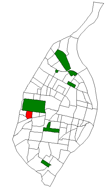 Map of St. Louis Neighborhood #42